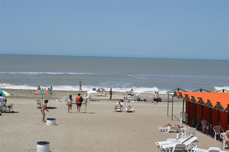 carilo bosque